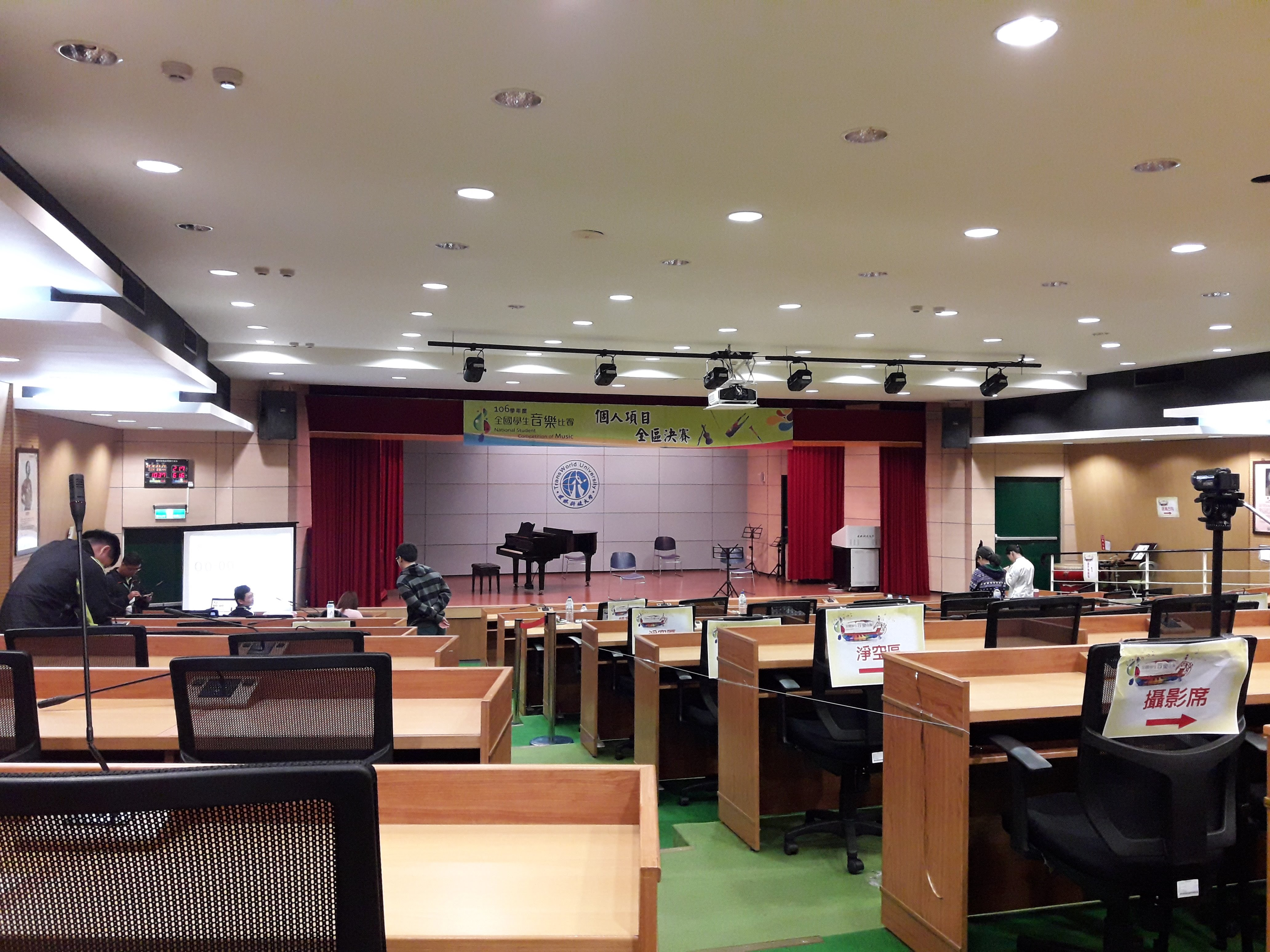 There was the competition of Junior High School A Group(國中A組) of Sheng(笙) Solo in the 2017 Academic Year National Student Competition of Music(106學年度全國學生音樂比賽) of the Republic of China in the Teaching-Speechifying Hall(教學演講廳) in the Creativity Building(創意樓) of the TransWorld University in 25 March, 2018.